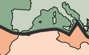 This is a section of the large image showing the Atlas Mountains and its tectonic plates.